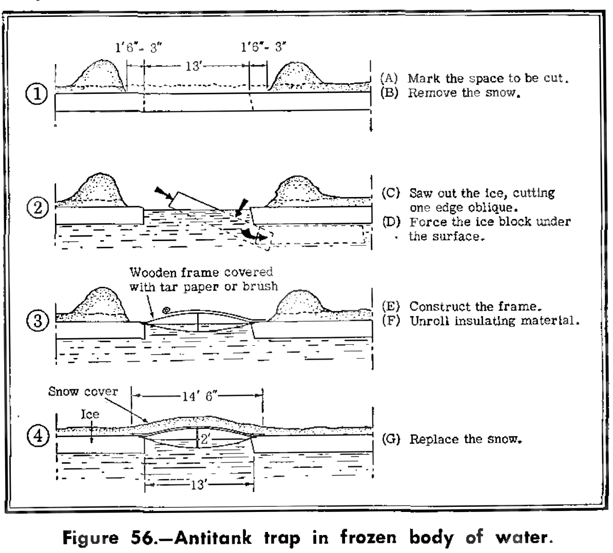 The 1942 German Taschenbuch für den Winterkrieg manual contains discusses winter, mud, and thaw with sections on the influence and duration of winter, the seasons of mud and thaw, preparation for winter warfare, winter combat methods and maintaining morale, including the use of reading material, lectures, movies, and "strength through joy" exercises. Other sections cover marches, the maintenance of roads, winter bivouacs and shelter, construction of winter positions, camouflage and concealment, identification of the enemy, clothing, rations, evacuation of the wounded, care and use of weapons and equipment, signal communication, and winter mobility. The manual was designed to provide information at the officer level for indoctrination of troops via the non-commissioned officer ranks.